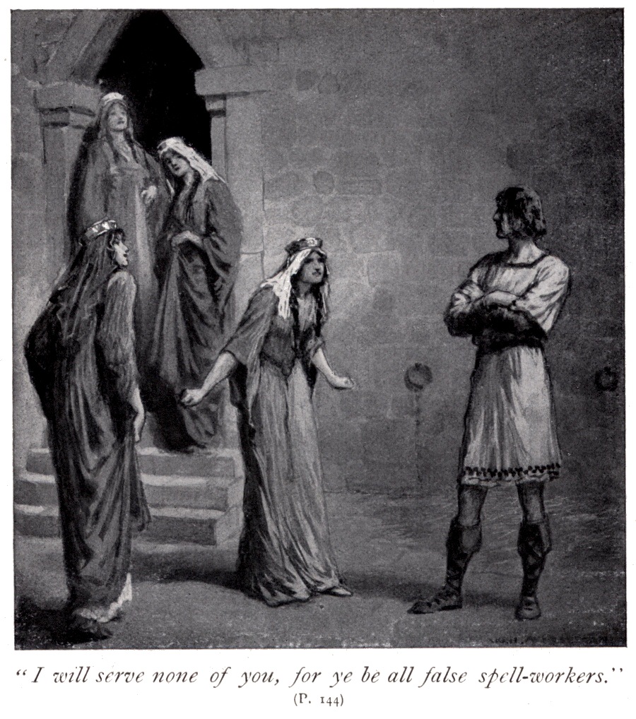 W. H. Margetson's illustration for Legends of King Arthur and His Knights by Janet MacDonald Clark.